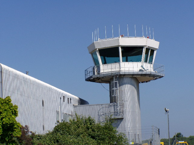 Southampton Airport Control Tower. Southampton Airport